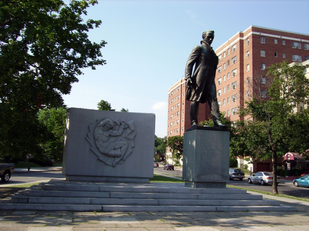 Taras Shevchenko Monument in Washington, D.C.